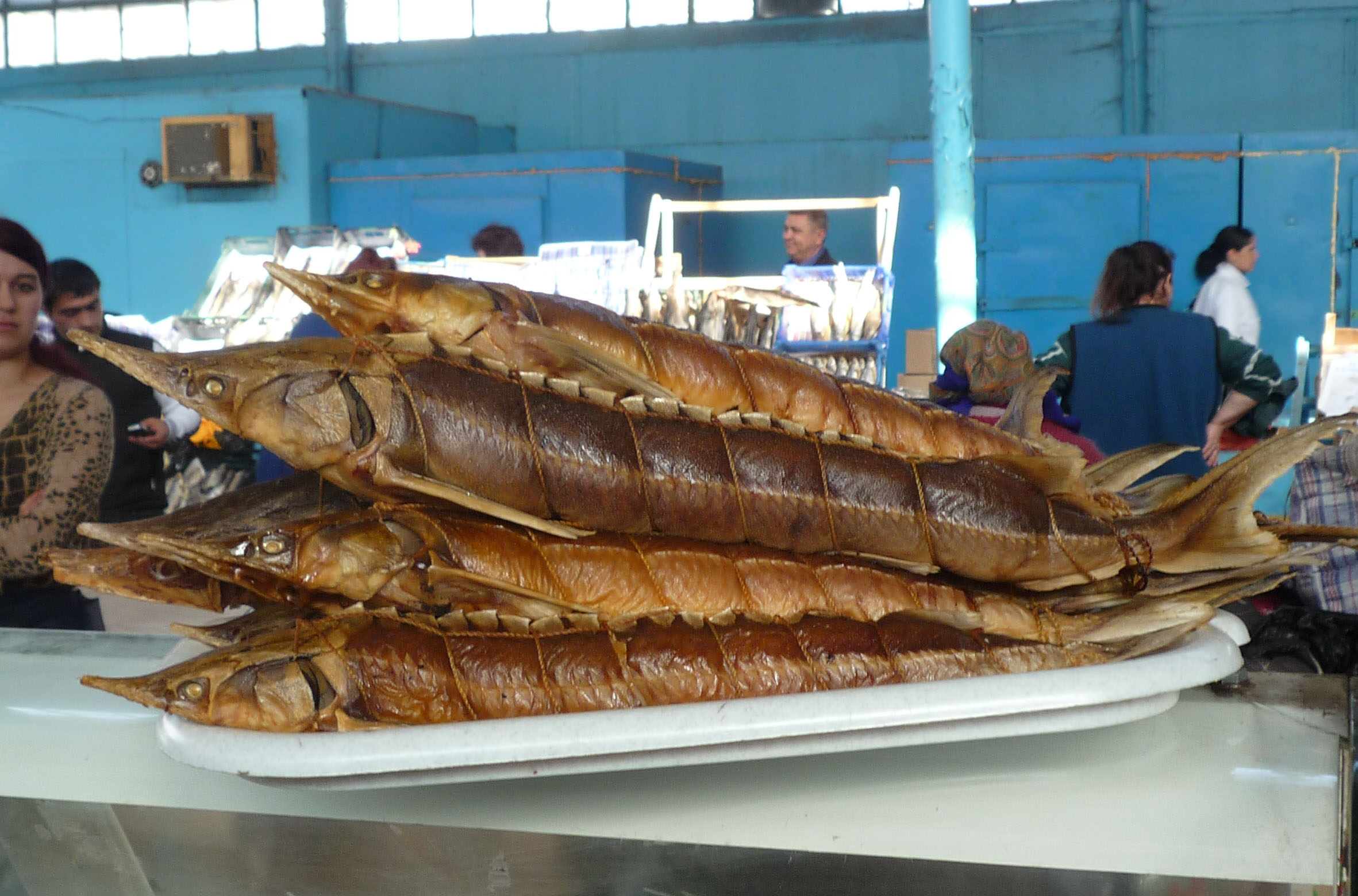 Astrakhan (Russia), Smoked fish on the market — Sturgeon.